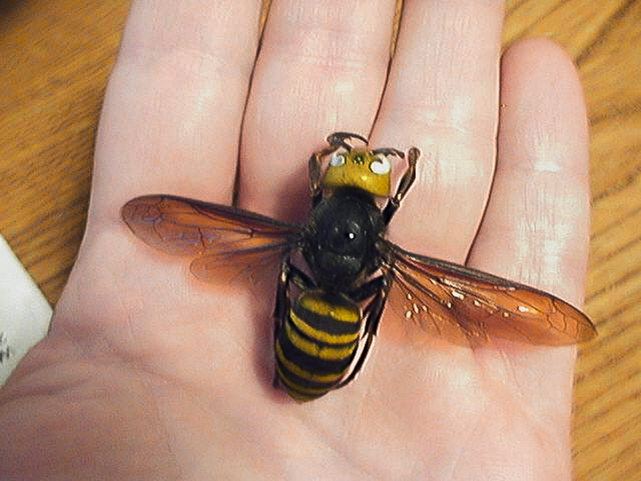 Color creation applied.